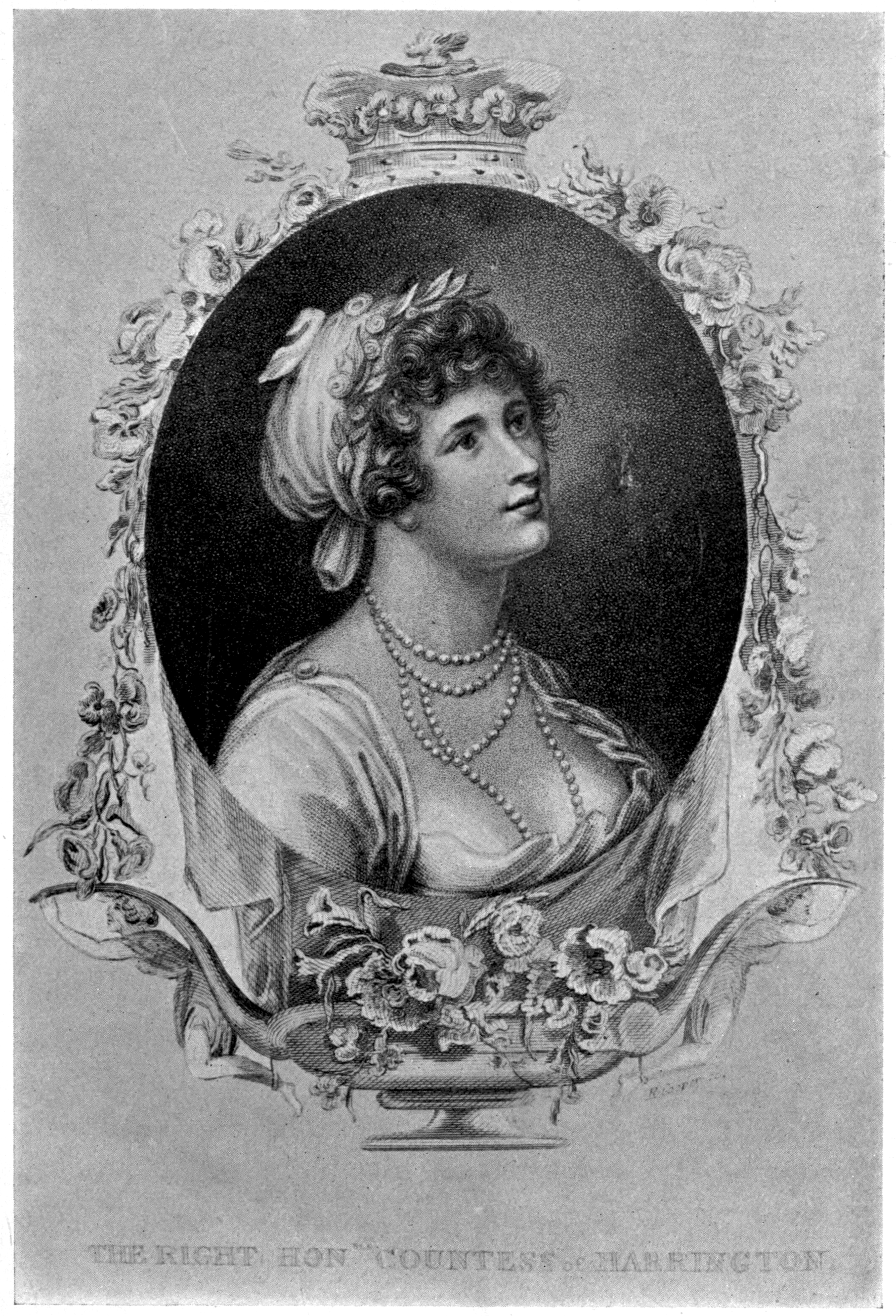 An image from a book, the removed caption is "MARIA FOOTE, AFTERWARDS COUNTESS OF HARRINGTON From an engraved portrait in the collection of A. M. Broadley, Esq."